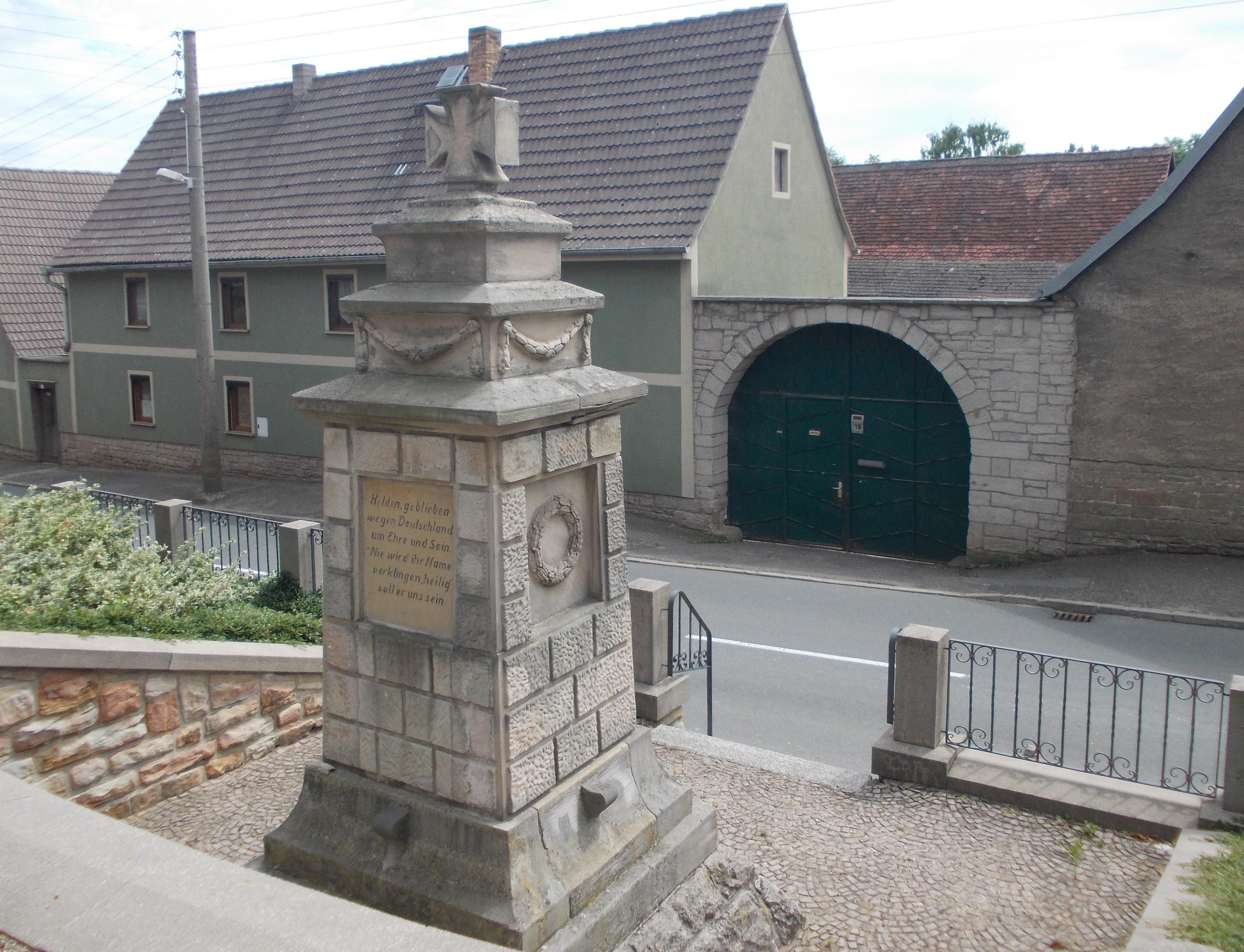 World War I memorial in Saubach (Finneland, district: Burgenlandkreis, Saxony-Anhalt)